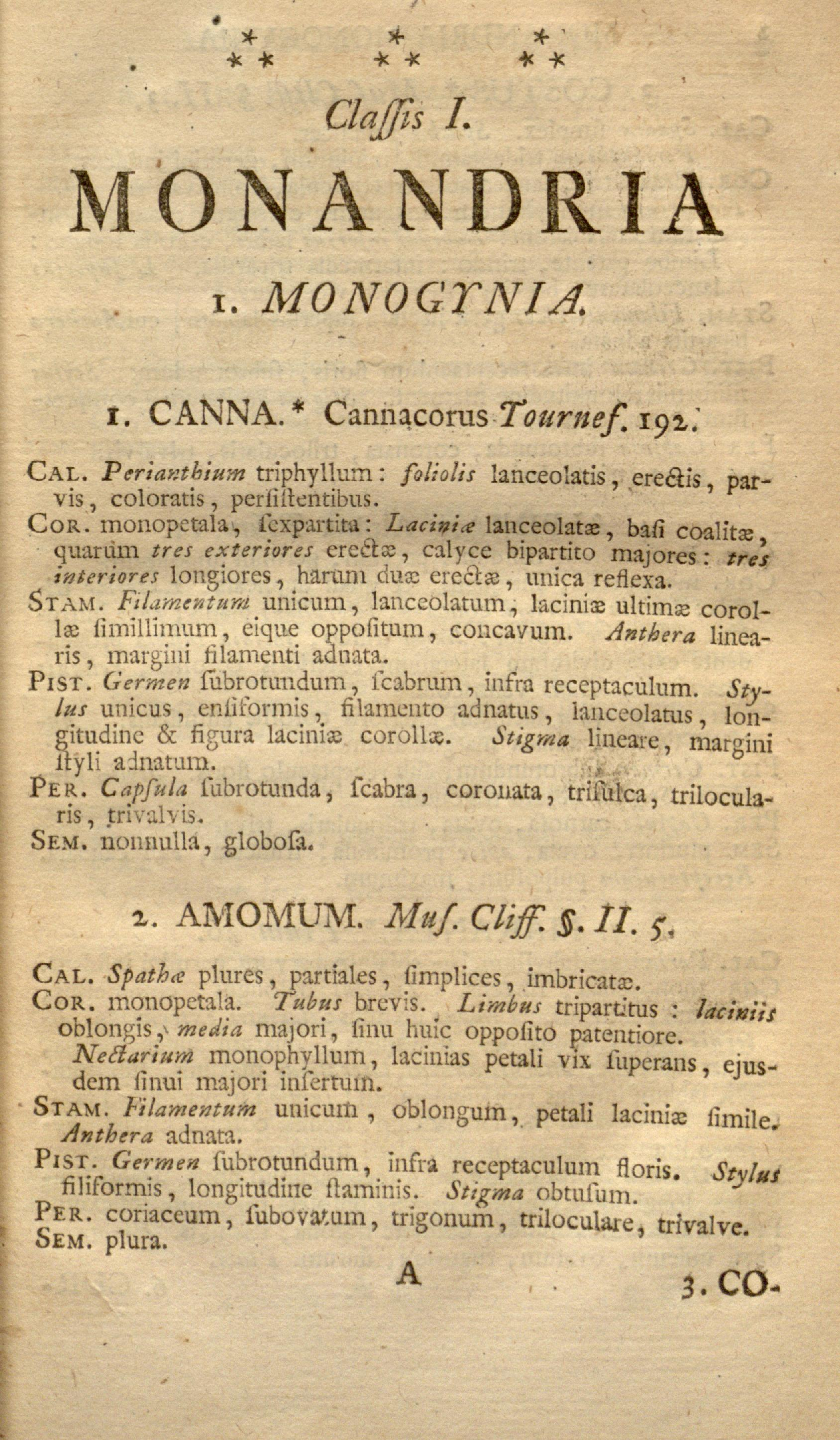 Page 1 of Linnaeus's Genera plantarum 5th edition, 1754